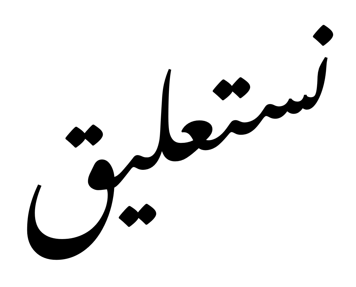 نستعلیق in the font "Noto Nastaliq"